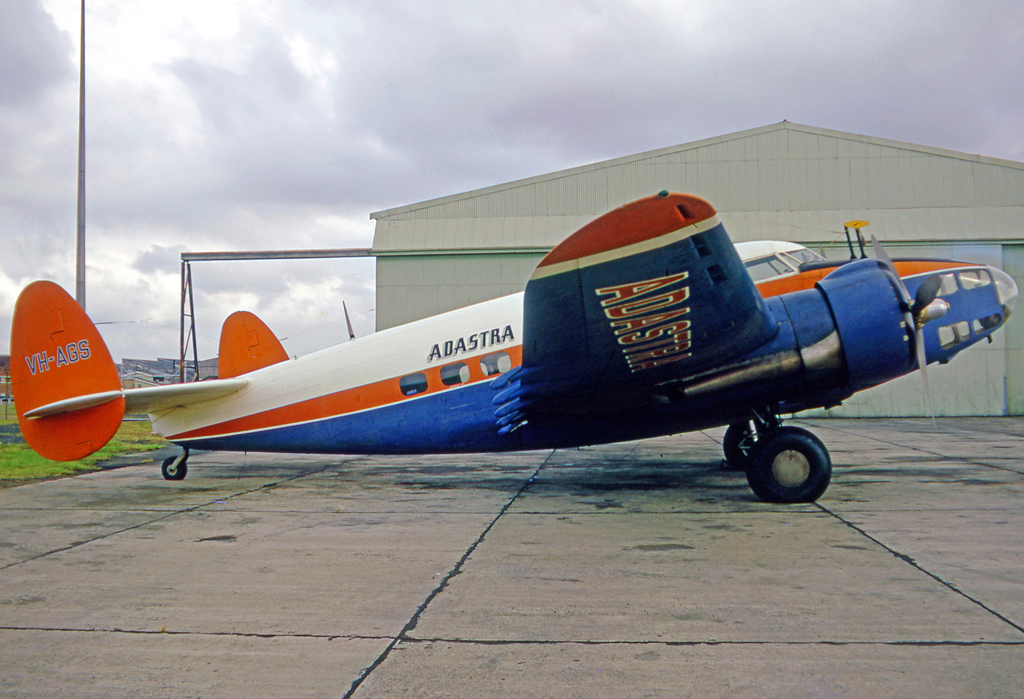 Lockheed 414 Hudson III VH-AGS of Adastra Aerial Surveys at Sydney Mascot Airport in 1971